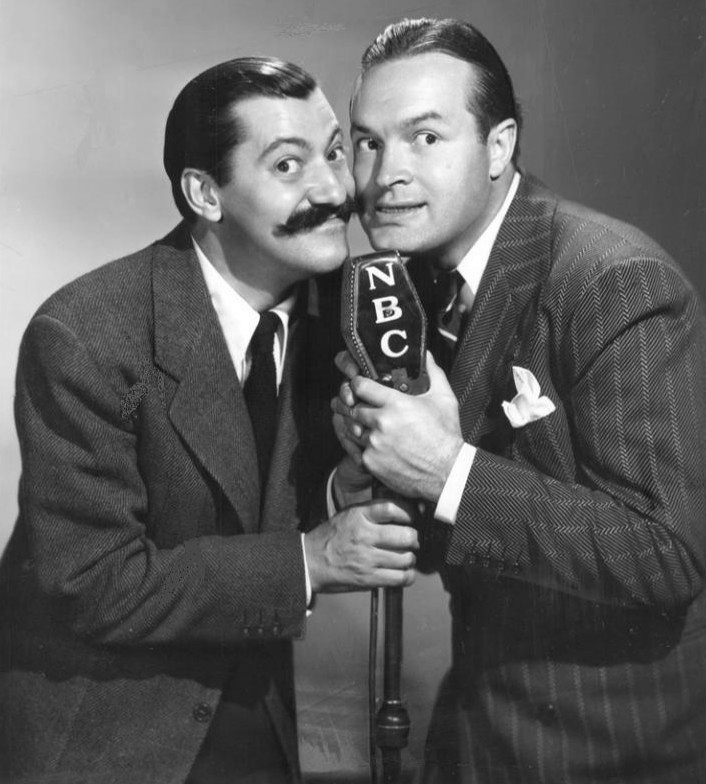 Promotional photo of Jerry Colonna and Bob Hope from Hope's radio program. This photo was produced prior to 1978 and has no copyright markings. It can be dated by the NBC information on the back of the photo which is shown in the original upload and the photo link above. Hope continued on with a radio show until 1955, so this is well within the pre-1978 criteria.